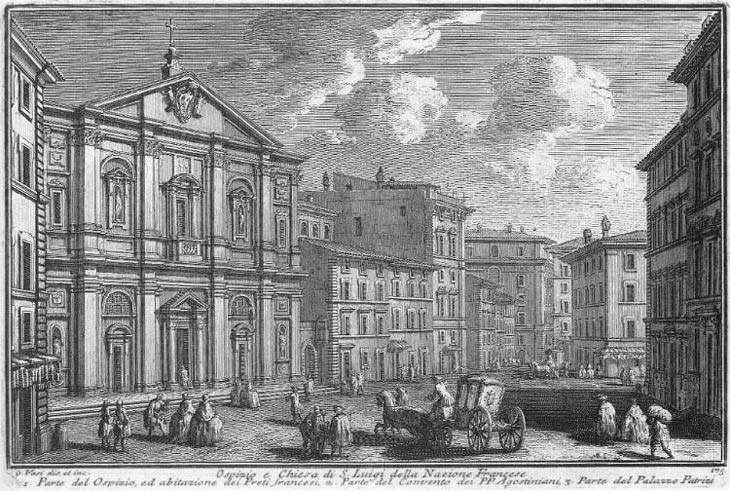 1) Parte dell'Ospizio (Palazzo di S. Luigi); 2) Convento dei PP. Agostiniani; 3) Parte di Palazzo Patrizi.